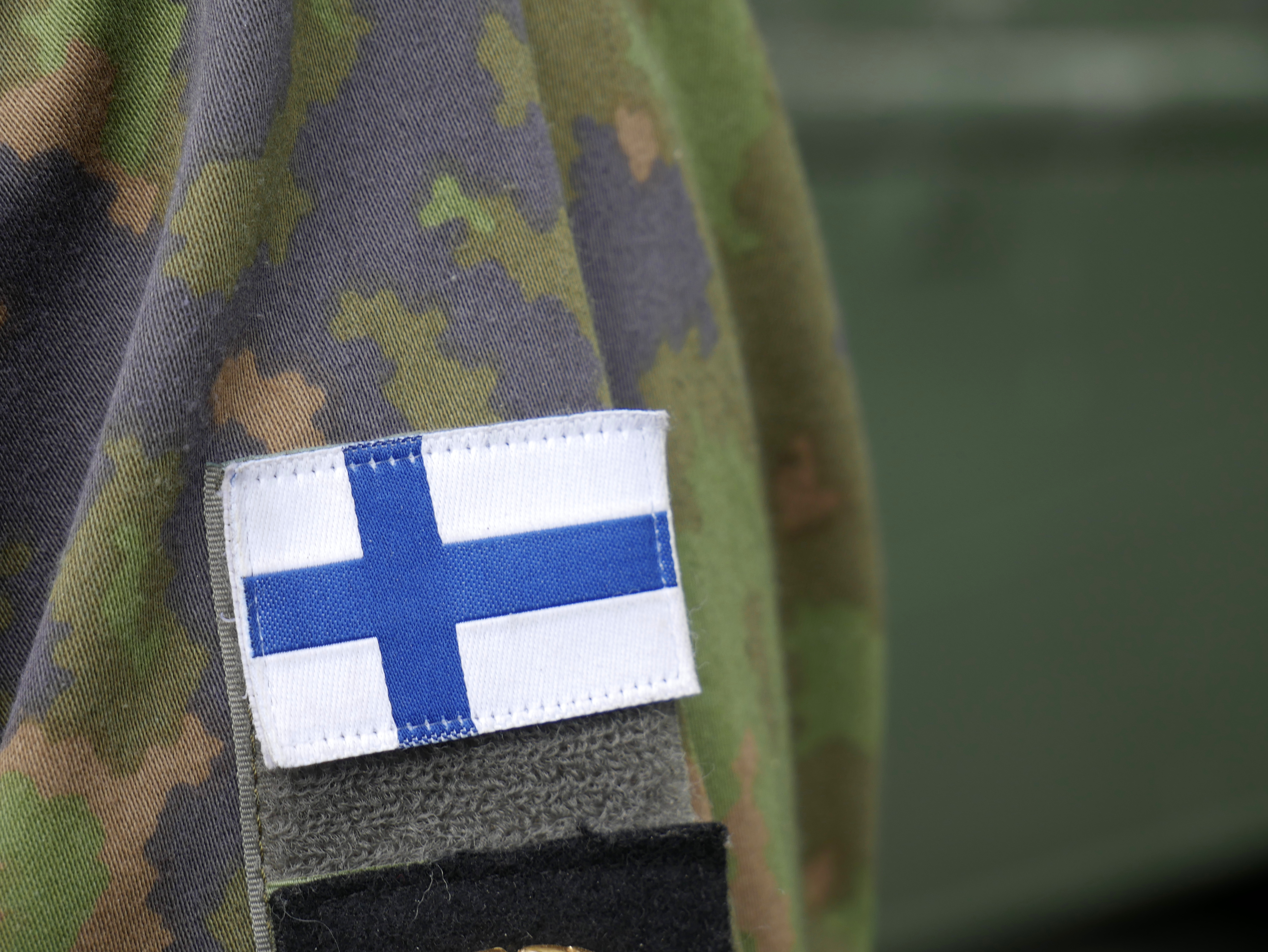 Flag of Finland in army uniform.